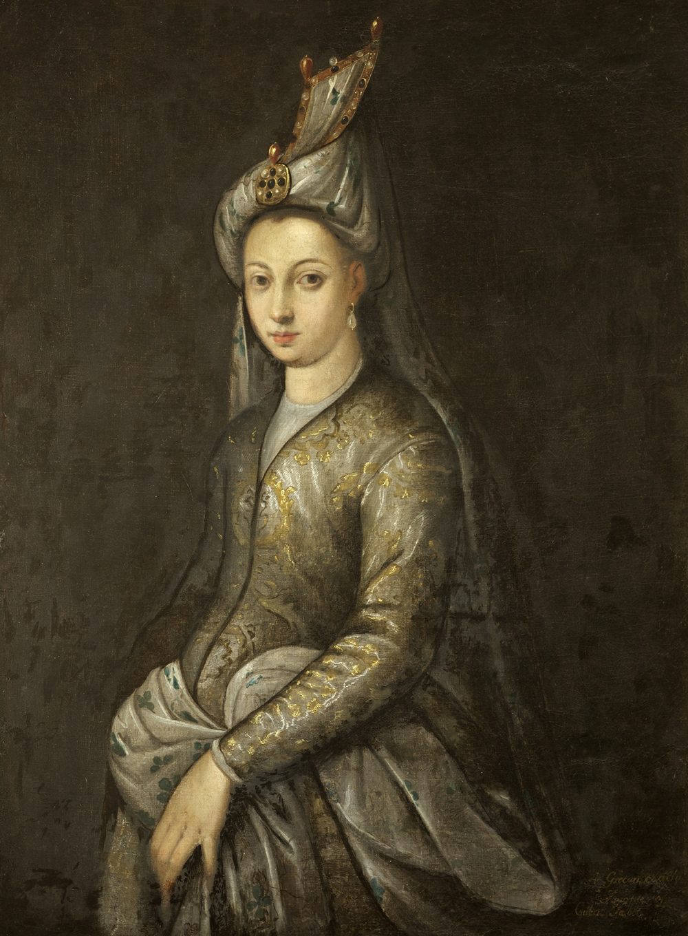 A portrait painting of Princess Mihrimah Sultan, daughter of the Ottoman Sultan Suleiman I.